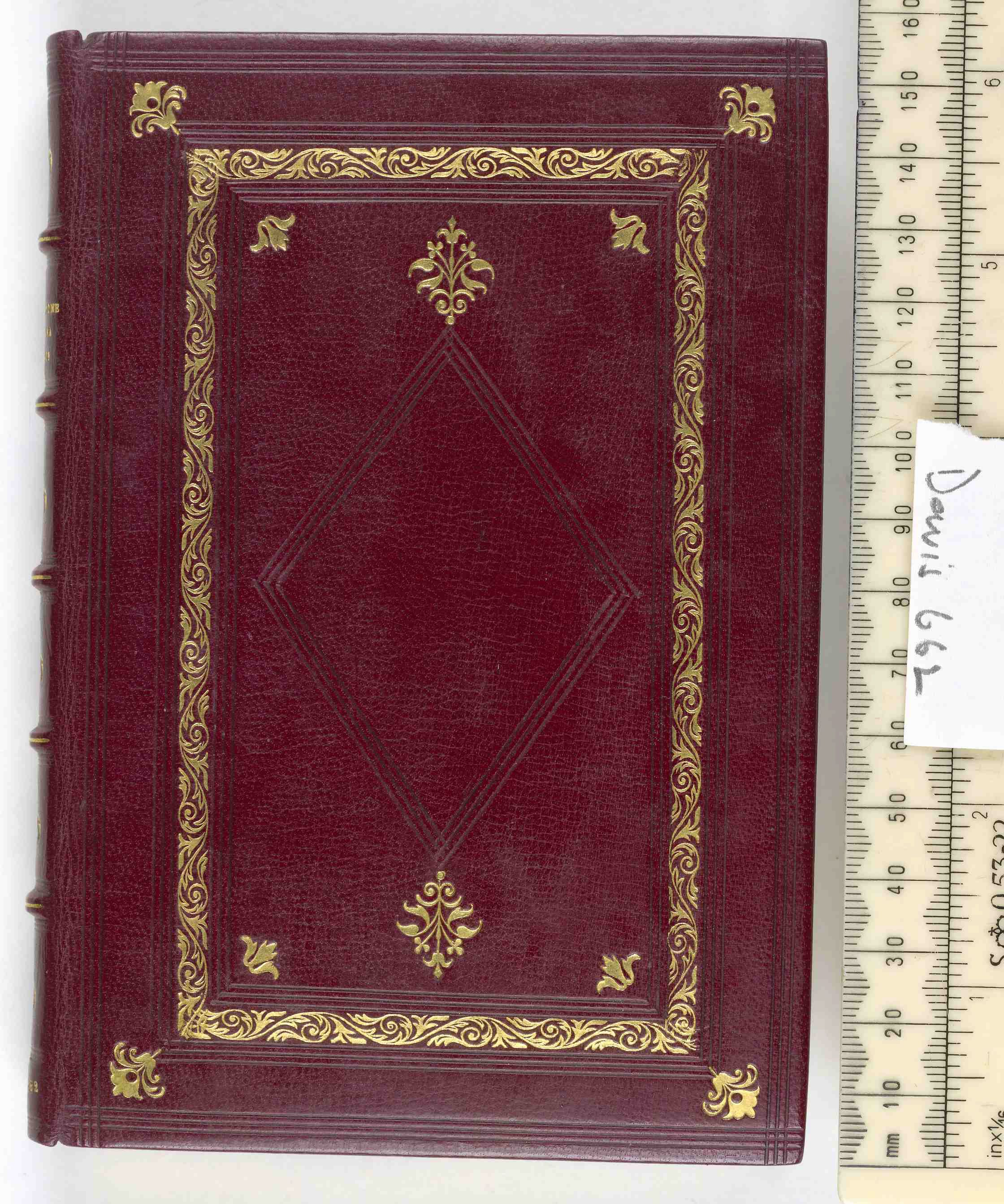 Style: Retrospective, imitations of earlier styles; Caption: Upper cover; Colour: Red; Edge: Gilt